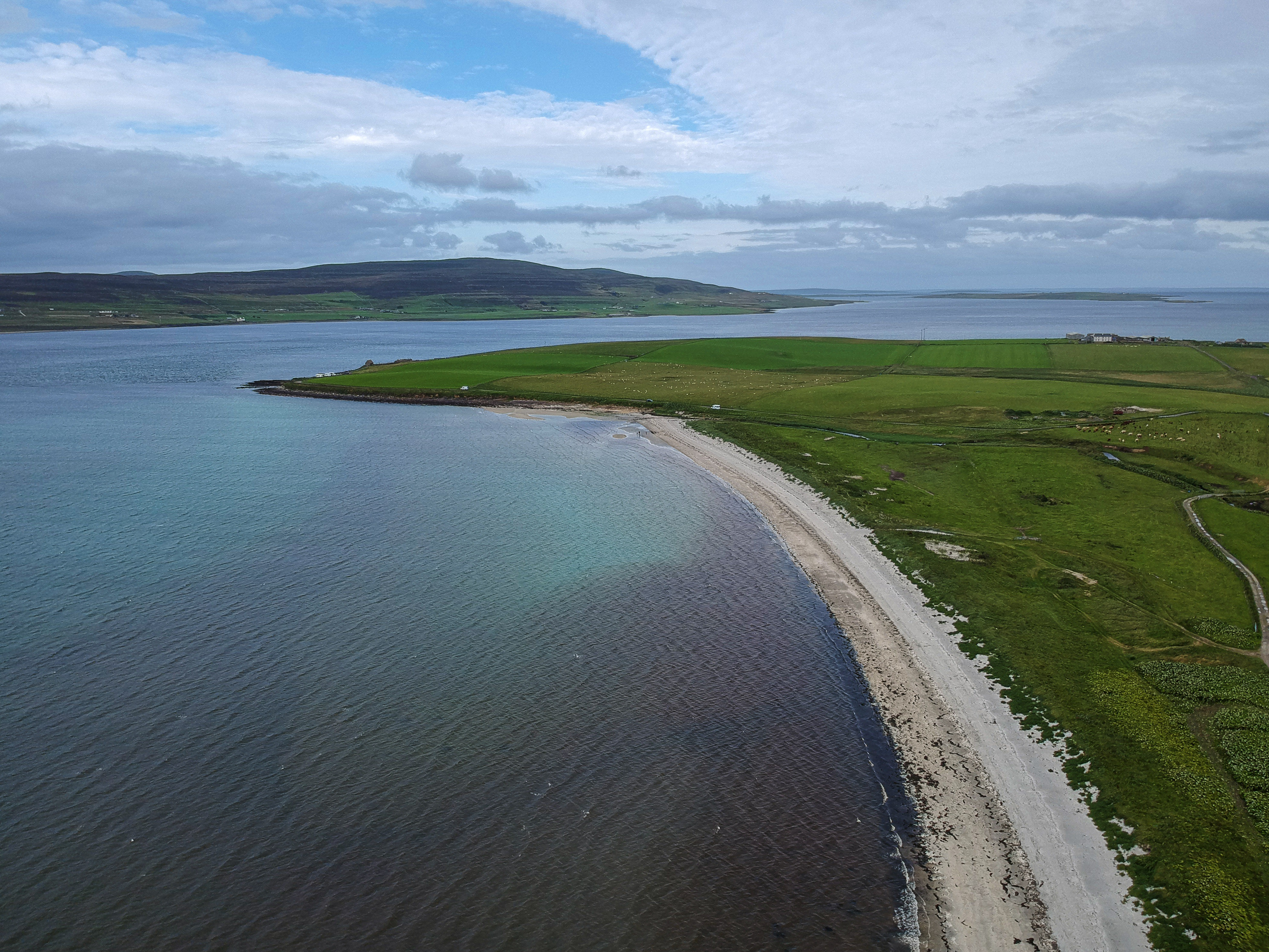 Aerial image of Sands of Evie, a beach near Stenso, Mainland, Orkney. The island of Rousay is visible in the background, as is the Broch of Gurness.